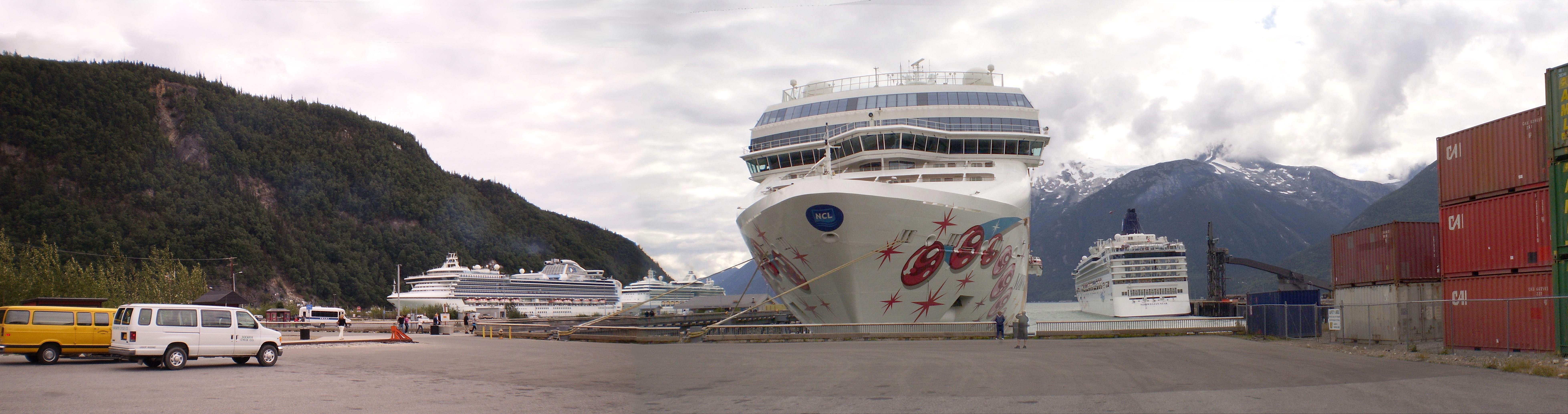 Port of Skagway, Alaska, showing four cruise ships docked. Left to right, they are the Sapphire Princess, the MS Serenade of the Seas, the Norwegian Pearl, and the Norwegian Star.